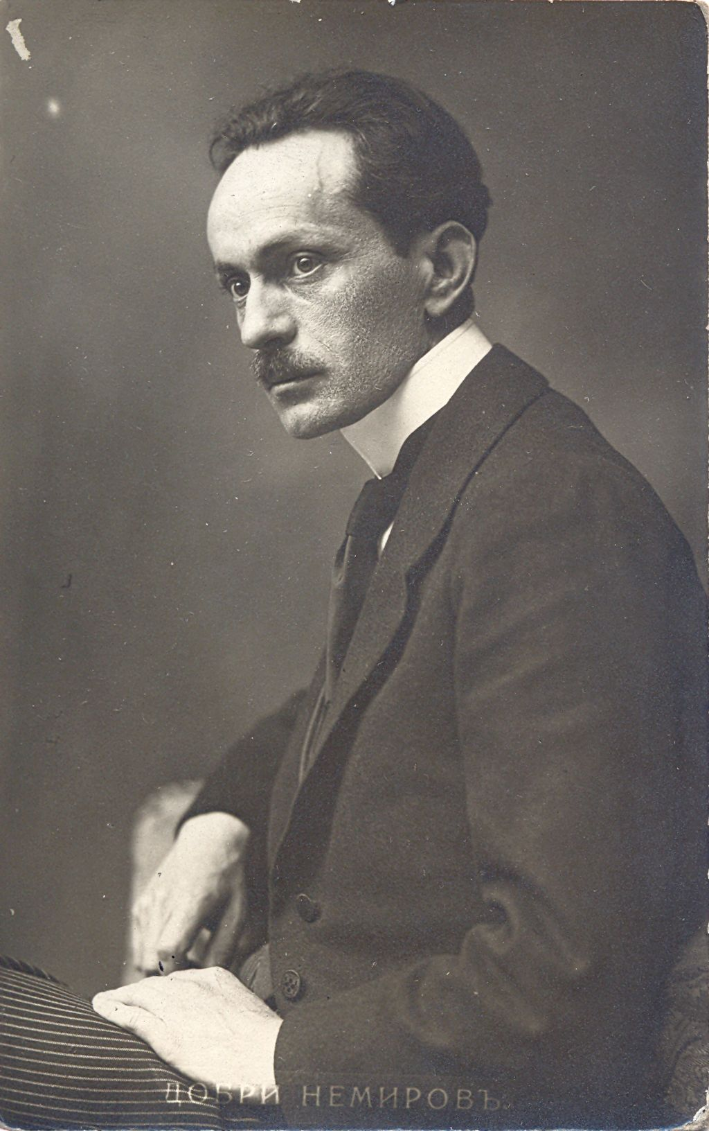 Bulgarian writer Dobri Nemirov in 1918